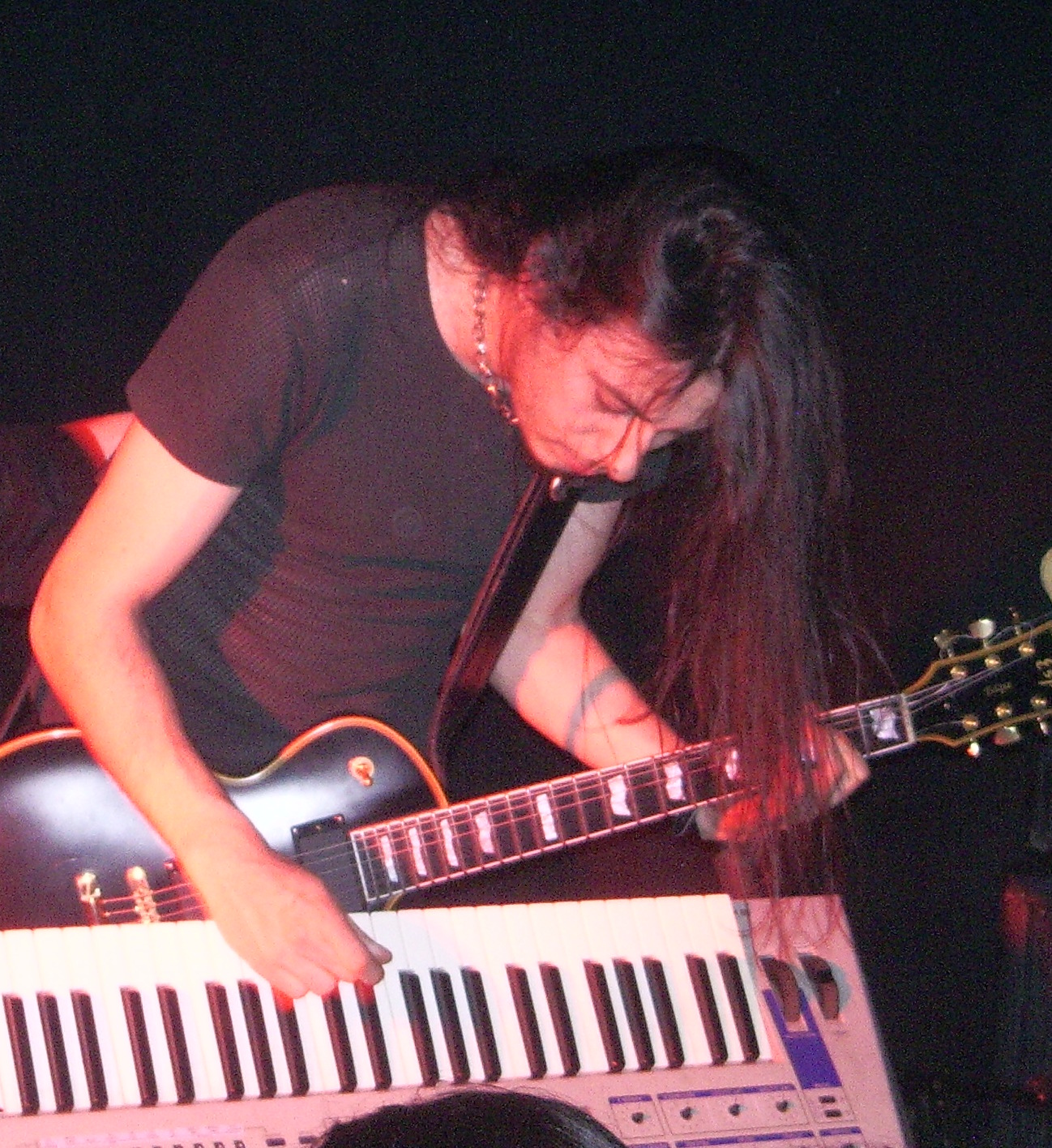 Bob Katsionis performing with Firewind at The Underworld in London, 25th April 2007 ESP Eclipse series Yamaha CS2x (1998)